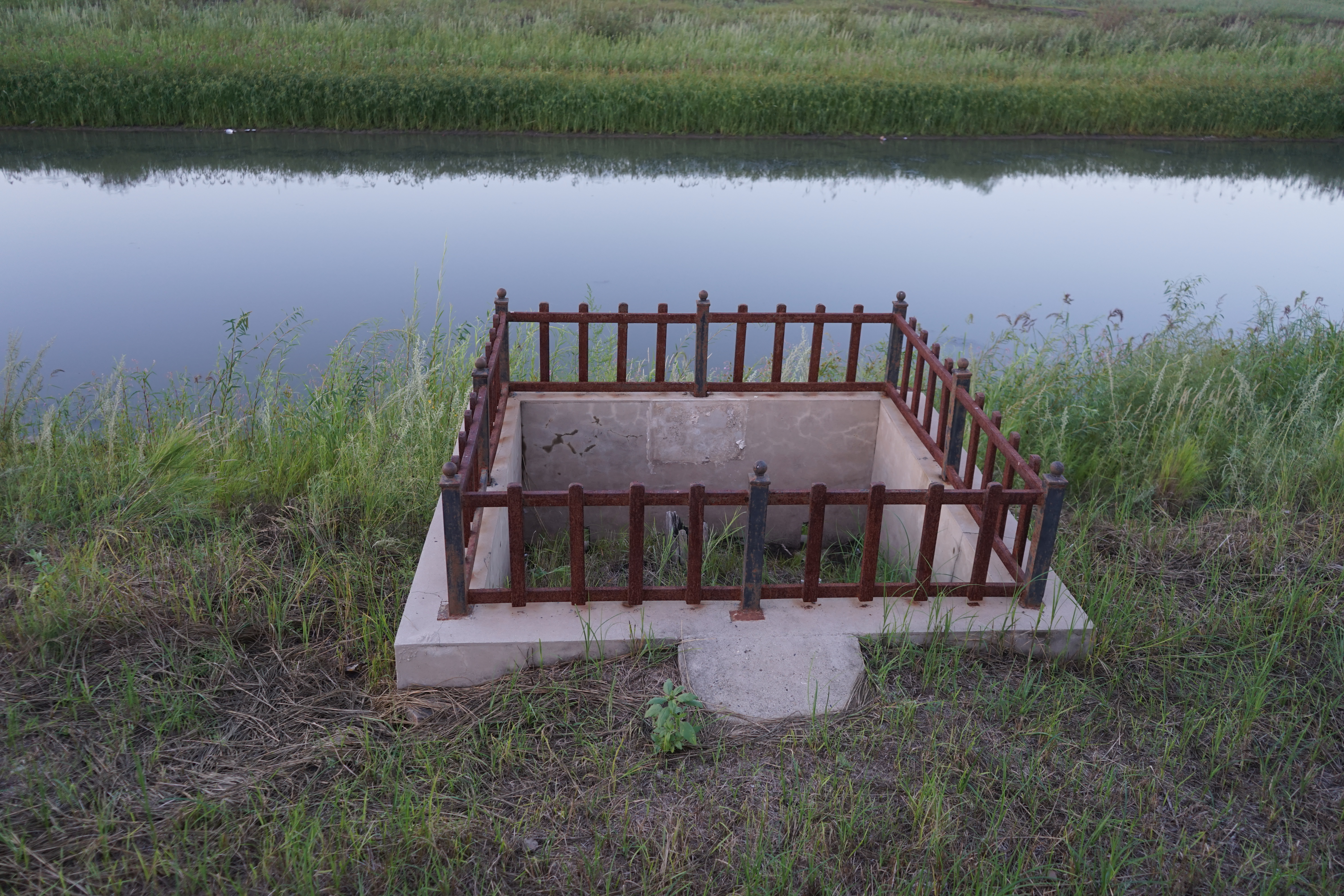 Nenjiang Harge Bridge, built in 1918 by the local government and completed in 1920. It was a wooden bridge, 767 meters long. It was rebuilt in 1925 and laid rails in 1926. In 1927 when Tao-Ang Railway Line was completed, it was put into service. In Nov. 14 1931, Jiangqiao Resistance happened here. The bridge was pulled down in 1935.